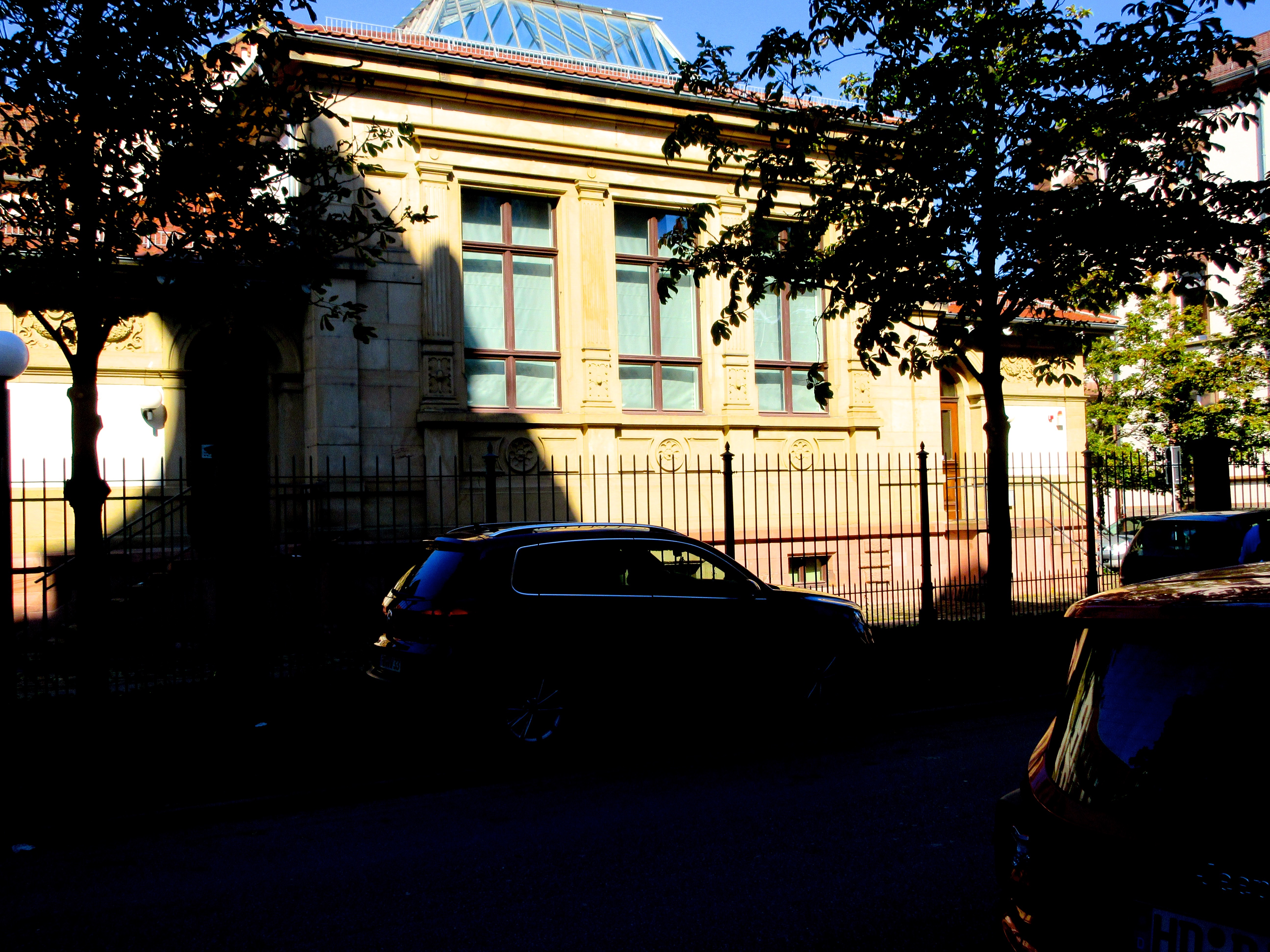 Building with glass roof, permanent exhibition Prinzhorn Collection, University Heidelberg Campus Bergheim